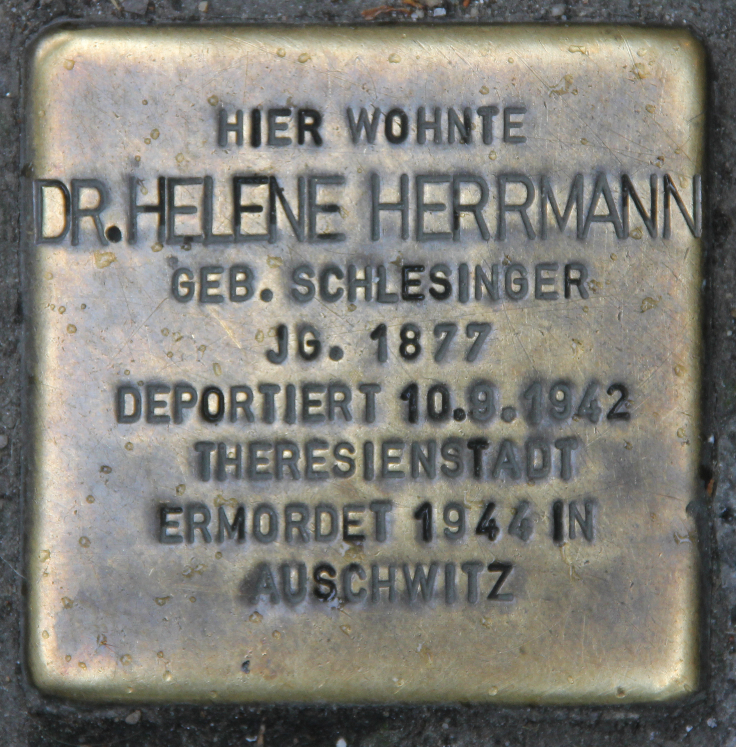 "Stolperstein" (stumbling block), Helene Herrmann, Augsburger Straße 42, Berlin-Charlottenburg, Germany